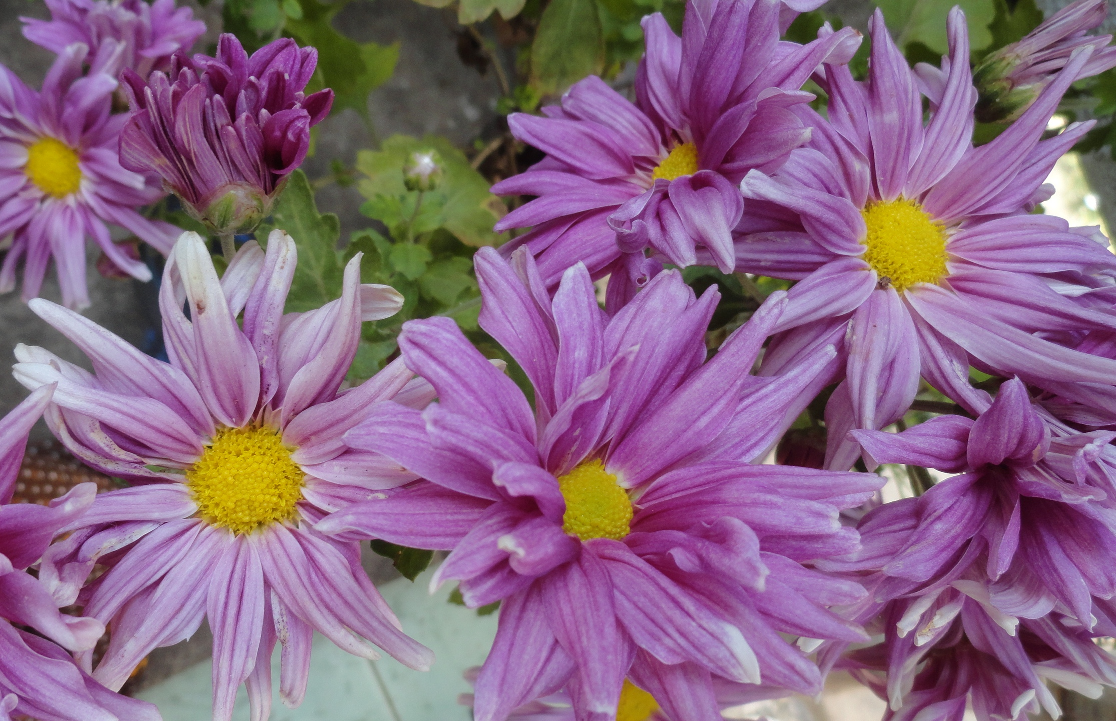 ఎర్ర చామంతి పూలు